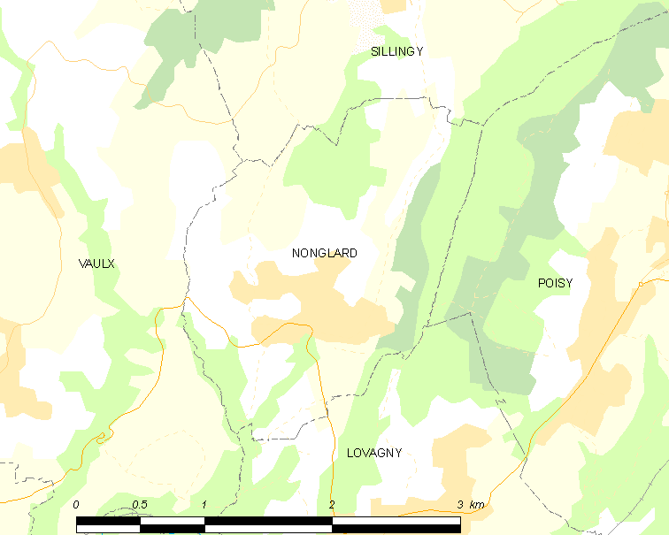 Map of French municipality Nonglard